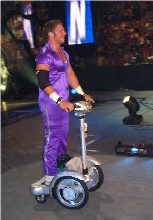 My personal photo (taken 09/25/2005 in Lubbock, TX at SmackDown! Taping)